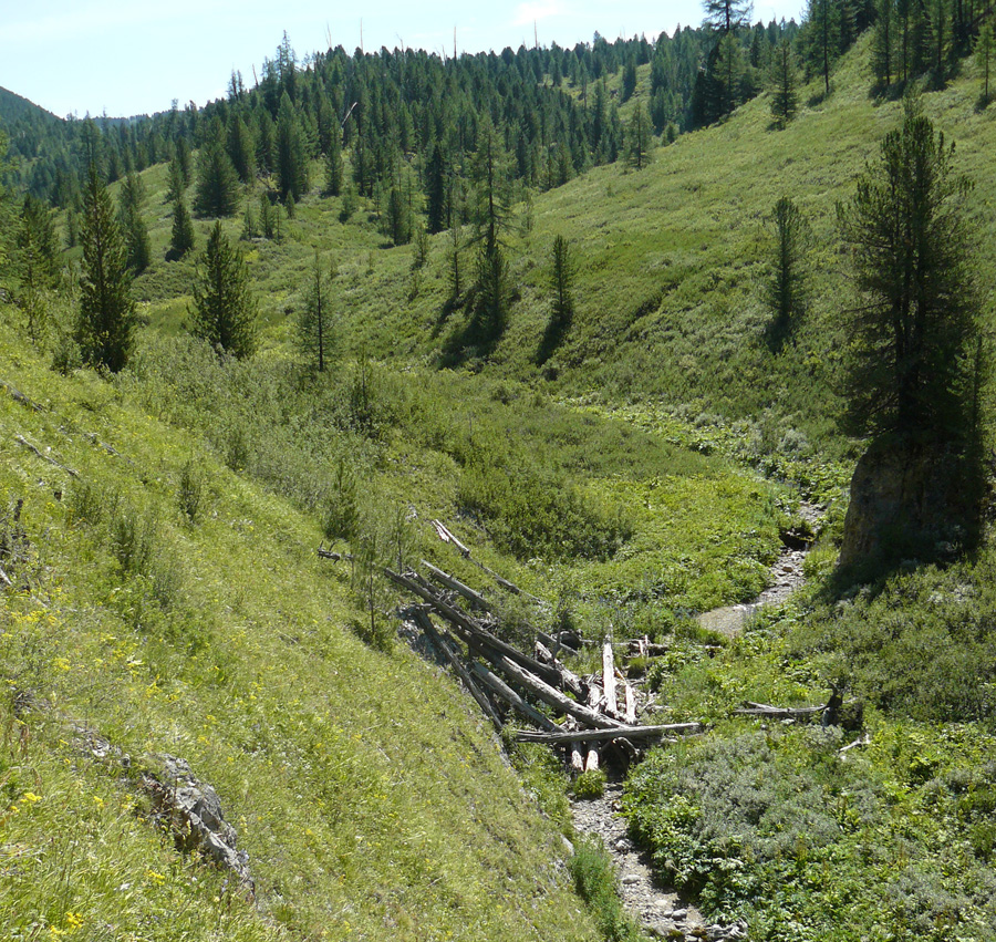 Dry bed of Sugary river at Central Altai